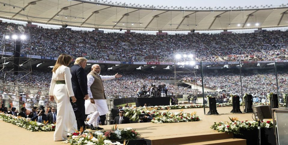 That is why I have come to India, with goodwill and love so that we can symbolize our desire and expand our partnership and incredible.